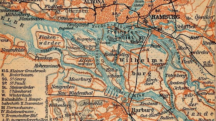 Map hamburg environs 1915